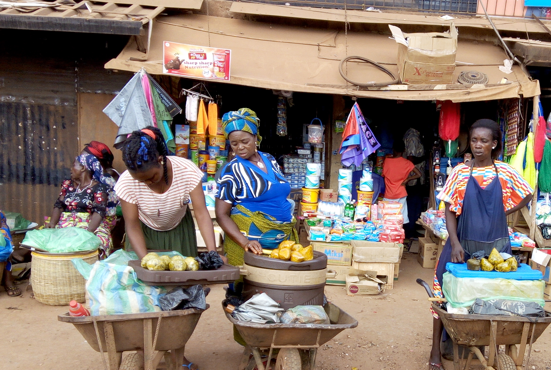 women selling at a popular market in nsukka This is an image of "African people at work" from Nigeria